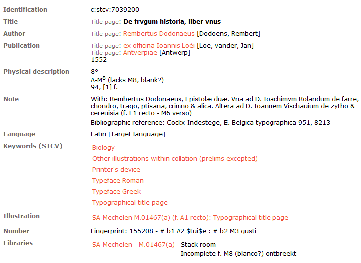 Sample catalogue entry of Short Title Catalogue Flanders, illustrating (2) functionality of database STCV